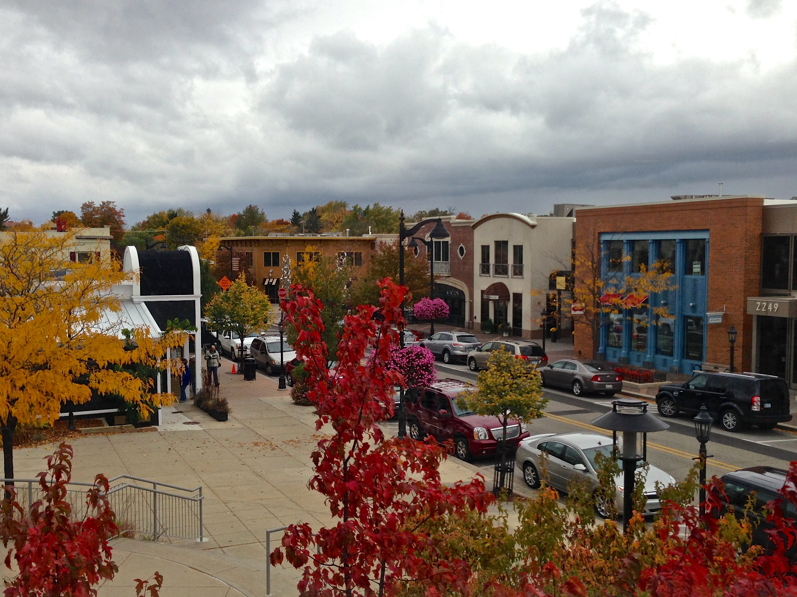 Downtown East Grand Rapids.